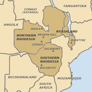 Map of the Federation of Rhodesia and Nyasaland. Own work. Link to user page as attribution.